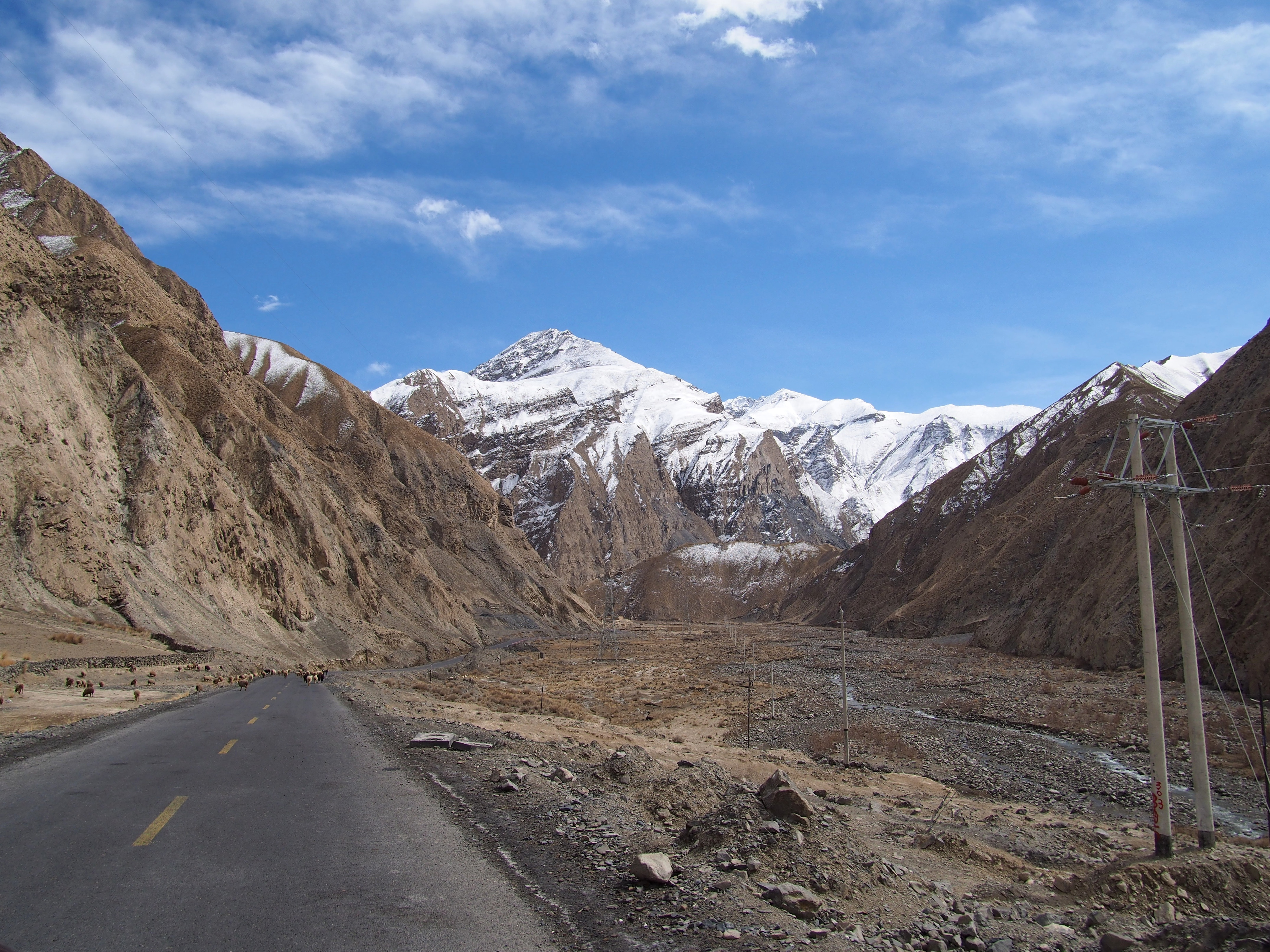 克孜勒陶-恰尔隆公路 - Road from Kizilto to Qarlung - 2015.04